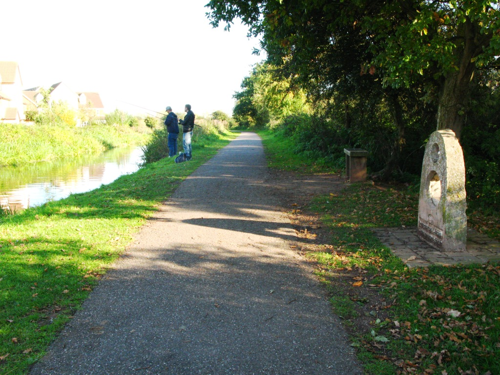 Two anglers cast for fish in the Bridgwater and Taunton Canal at Bathpool, Somerset, England. The feature on the right of the path represents Neptune as part of the Somerset Space Walk, a scale model of the Solar System.